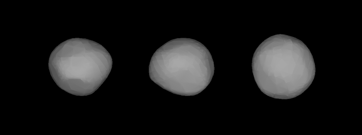 A three-dimensional model of 8 Flora that was computed using light curve inversion techniques.